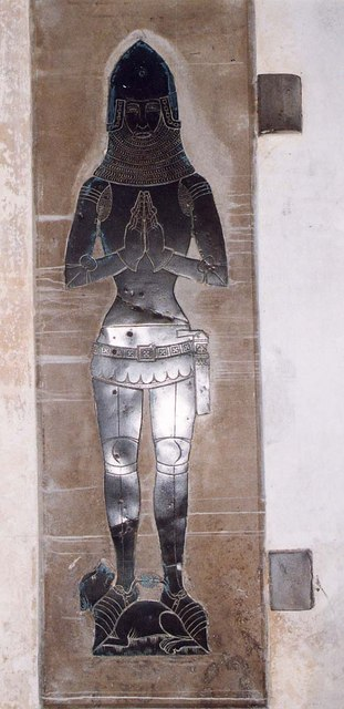 All Saints' parish church, Calbourne, Isle of Wight: 14th-century monumental brass of Sir William Montague, killed in 1383 while jousting with his father, the Earl of Salisbury